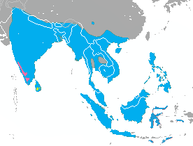 Range of the genus Paradoxurus